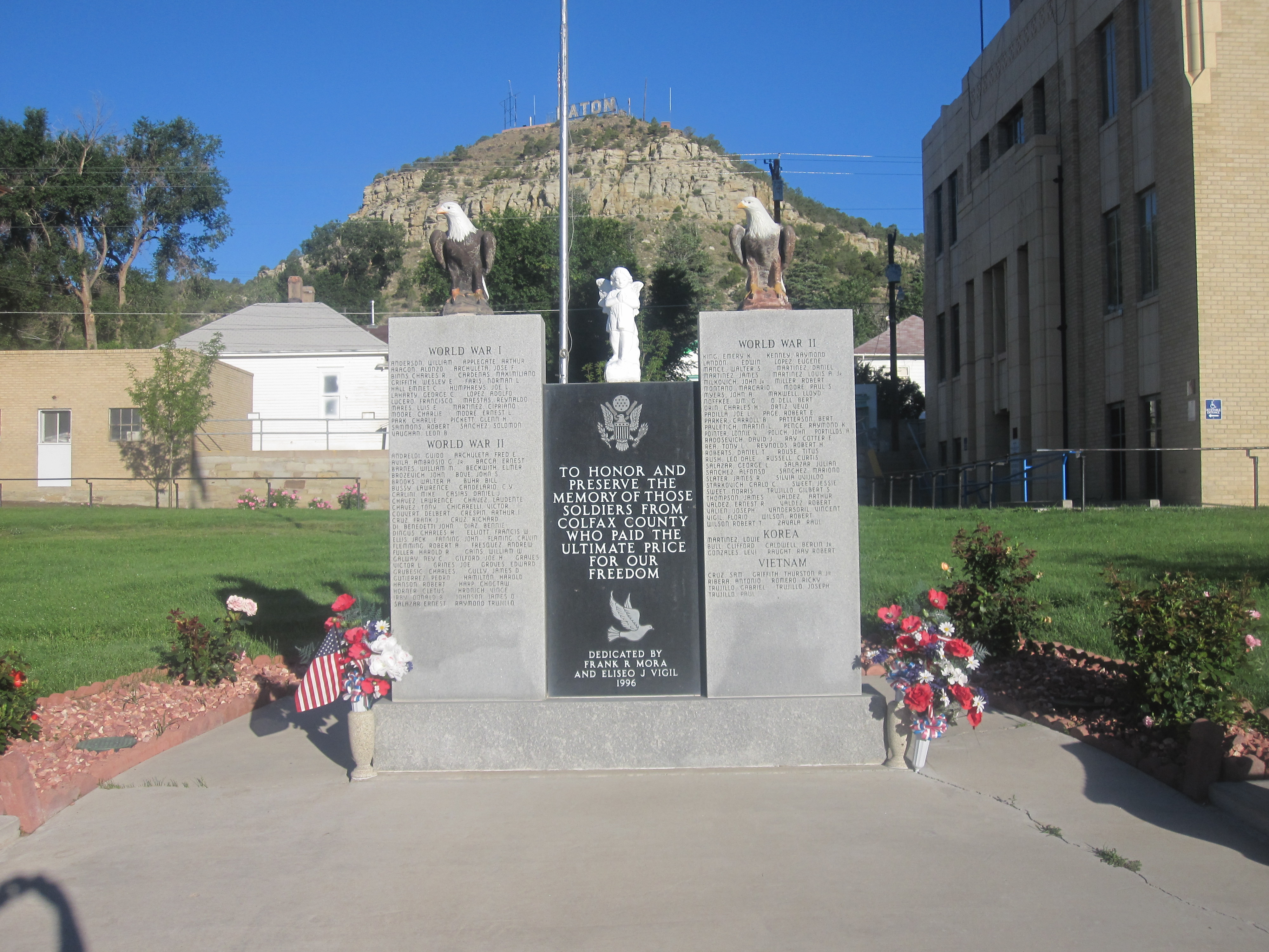 I took photo with Canon camera in Raton, NM.